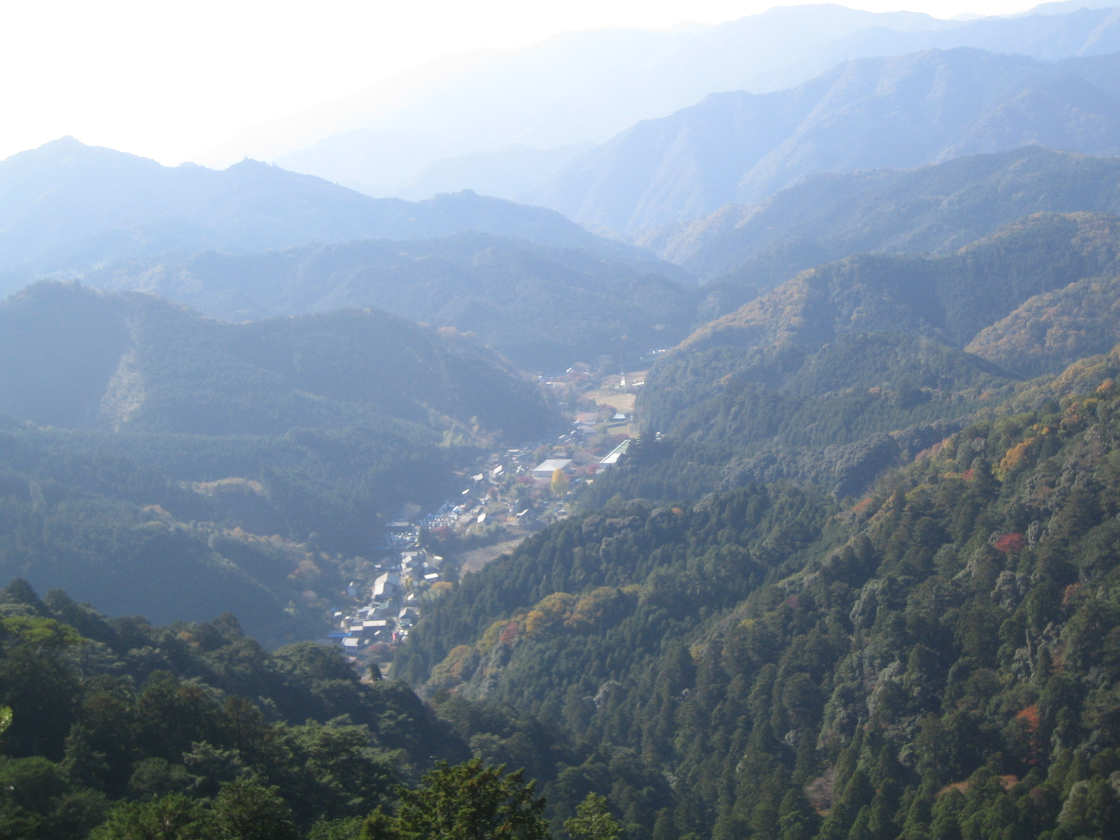 Hamlet of Kadoya, Shinshiro (former Horai), Aichi, Japan.